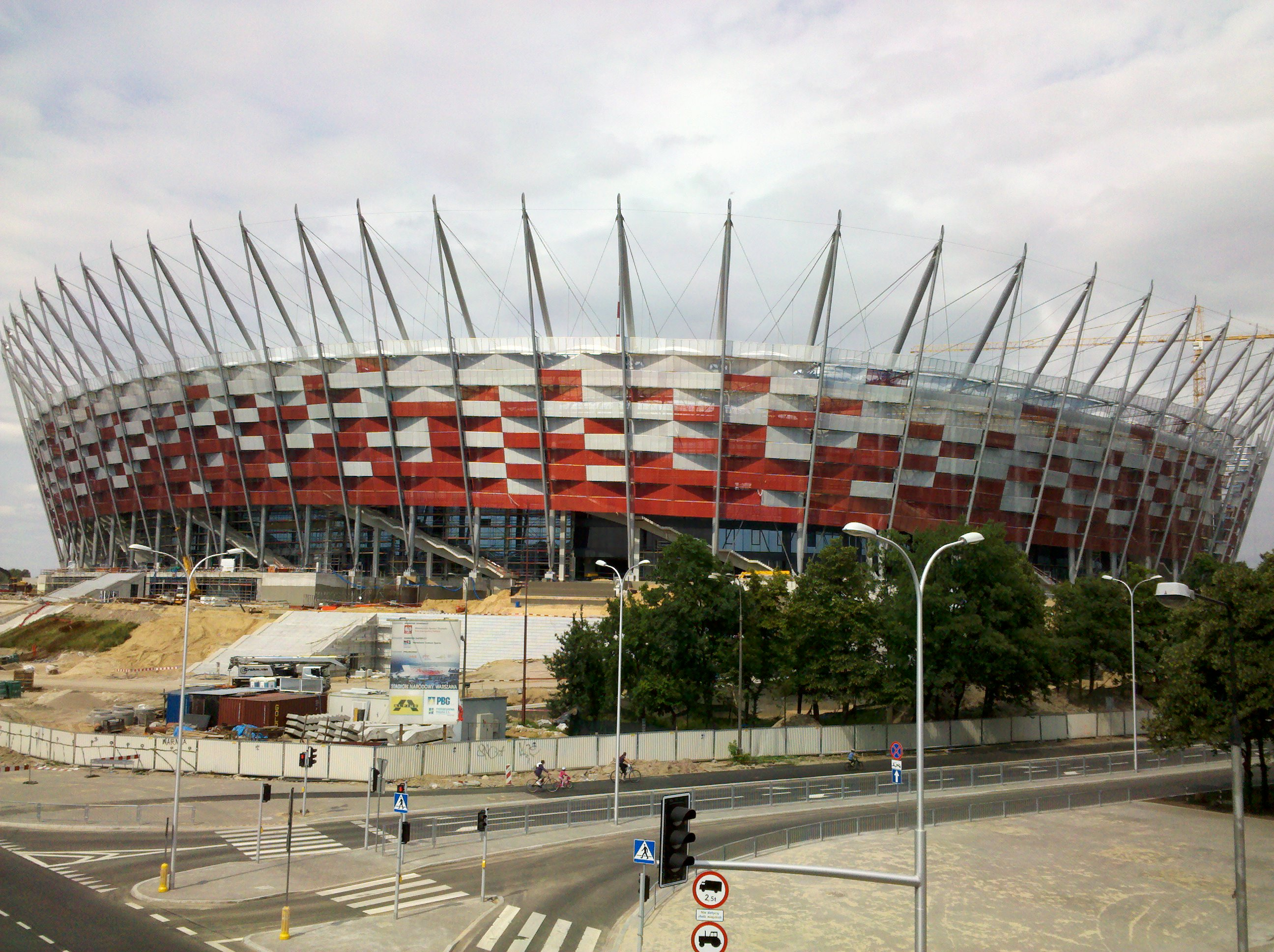 Construction site of the National Stadium in Warsaw